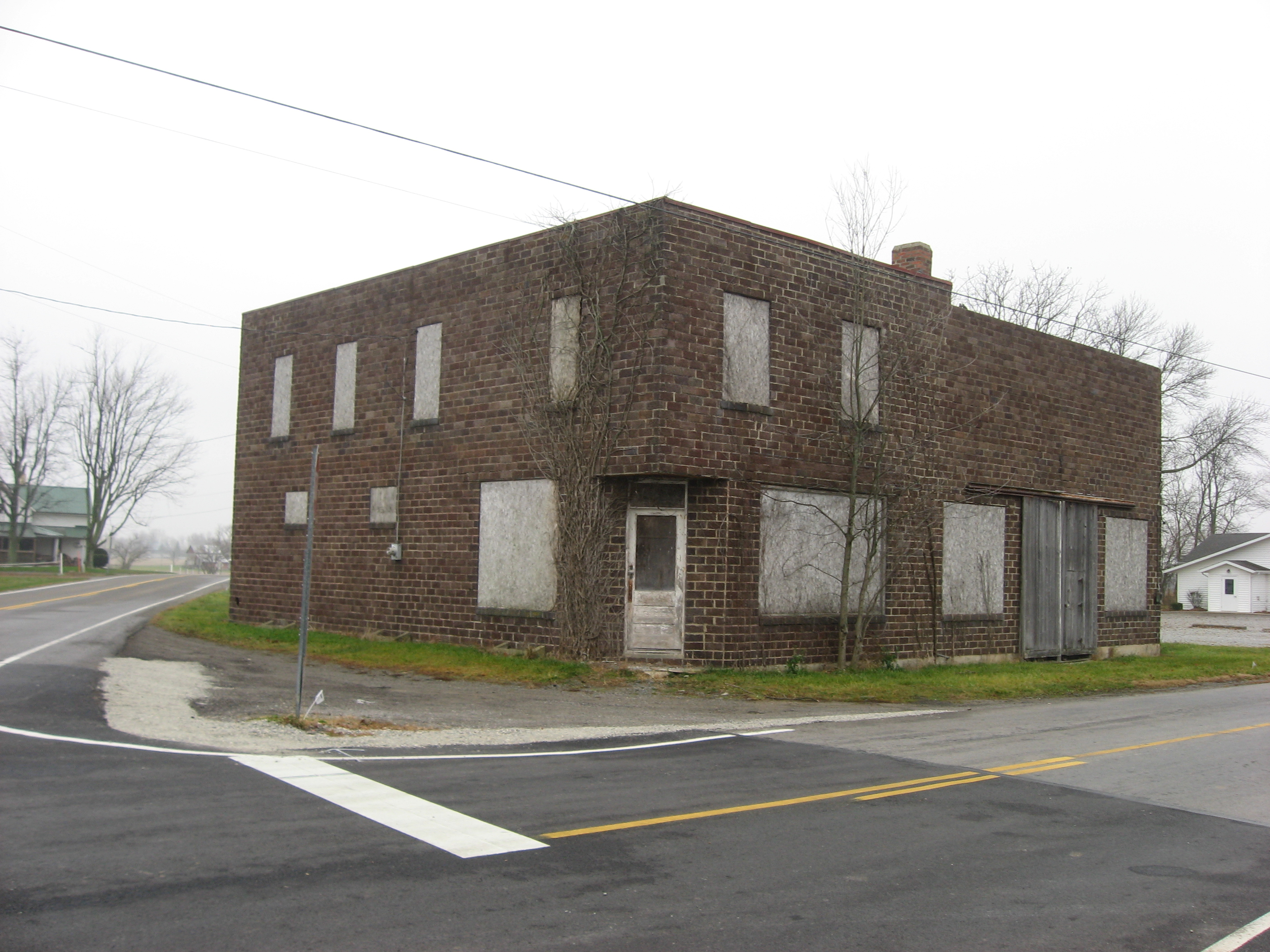 Abandoned building on the southeastern corner (the Logan County side) of the intersection of State Route 720 and County Road 23/Santa Fe Line Road in Santa Fe, Ohio, United States.